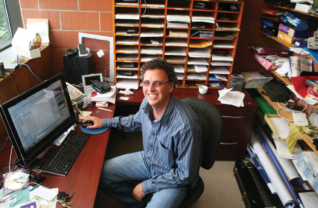 Steve Joordens sitting in his office